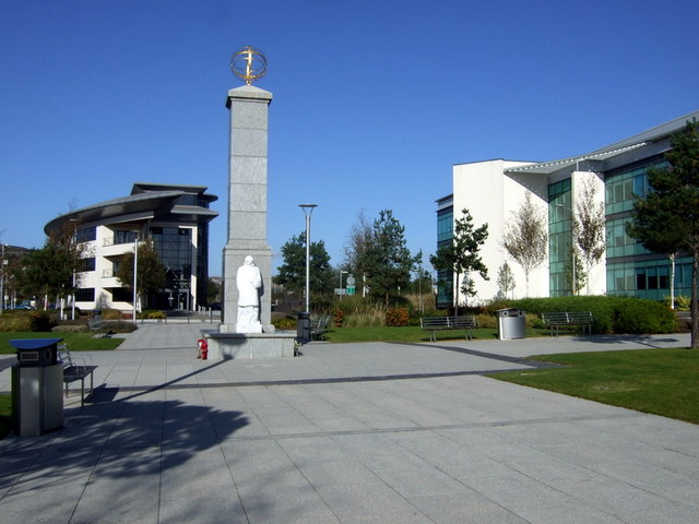 Technium Square Swansea Part of the redevelopment of Swansea docks, with the merchant seamen's war memorial in the centre and Technium business innovation buildings on either side.